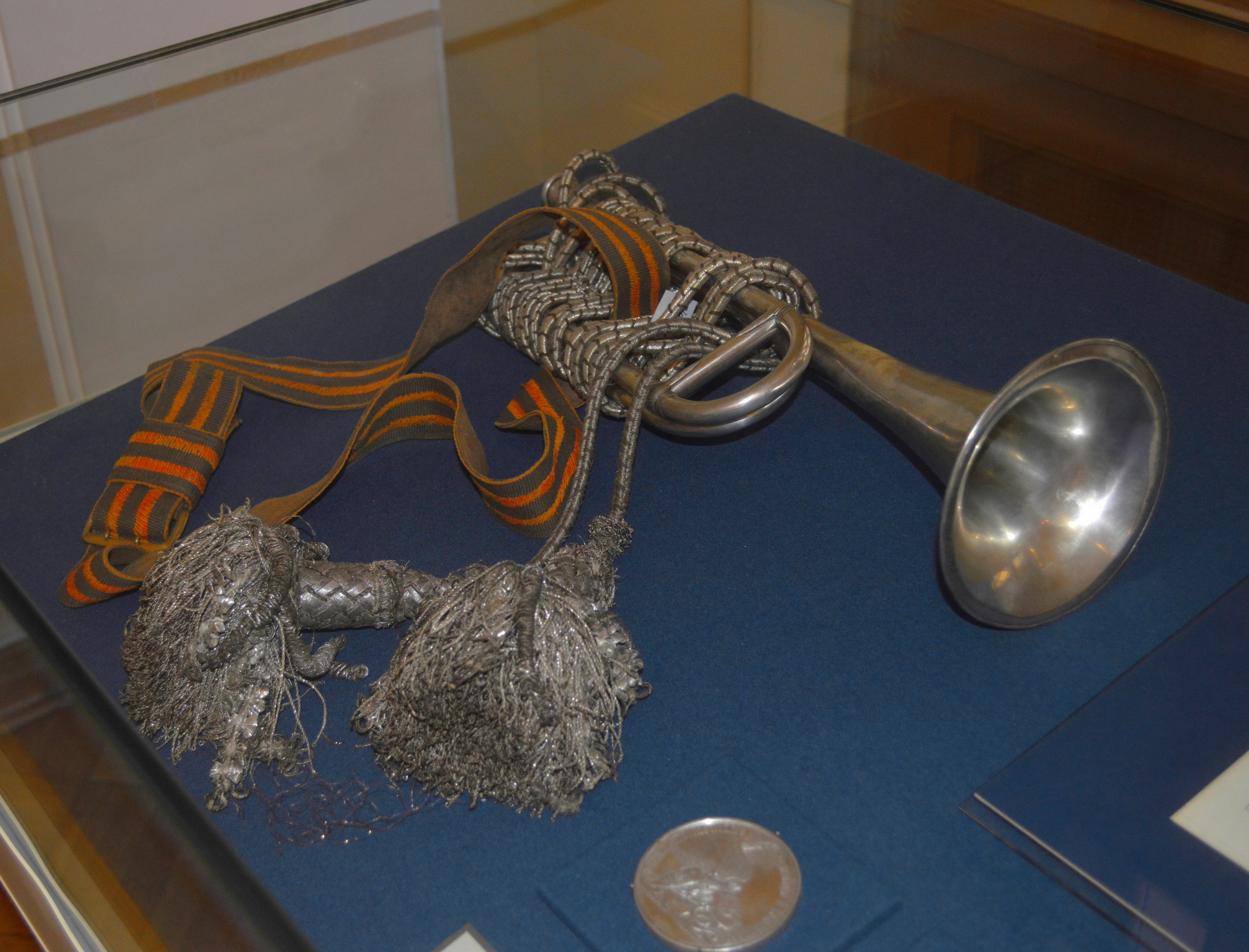 St. George's silver trumpet, Petersburg, 1851.